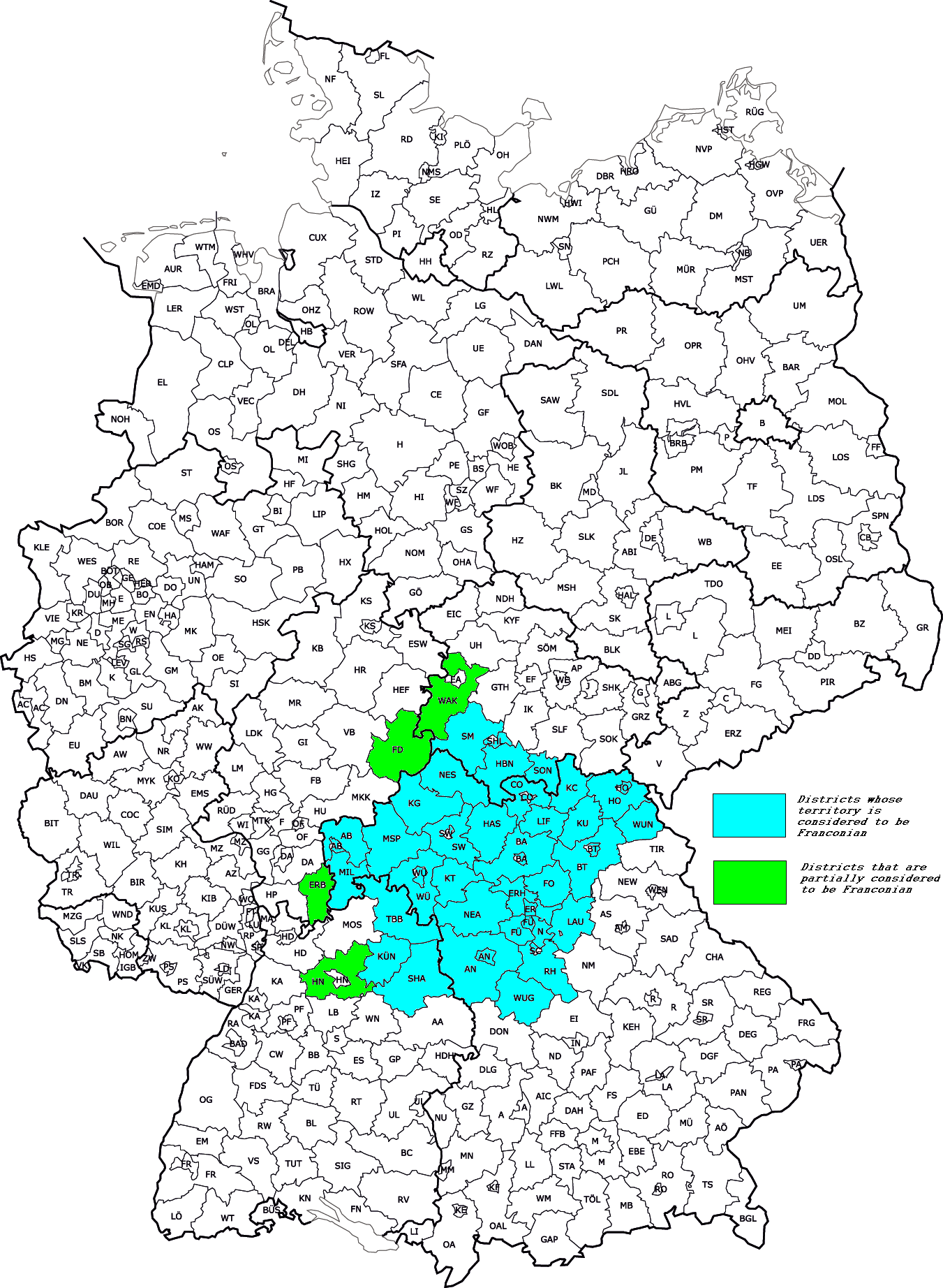 Districts of modern Franconia